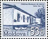 Stamp of Moldova